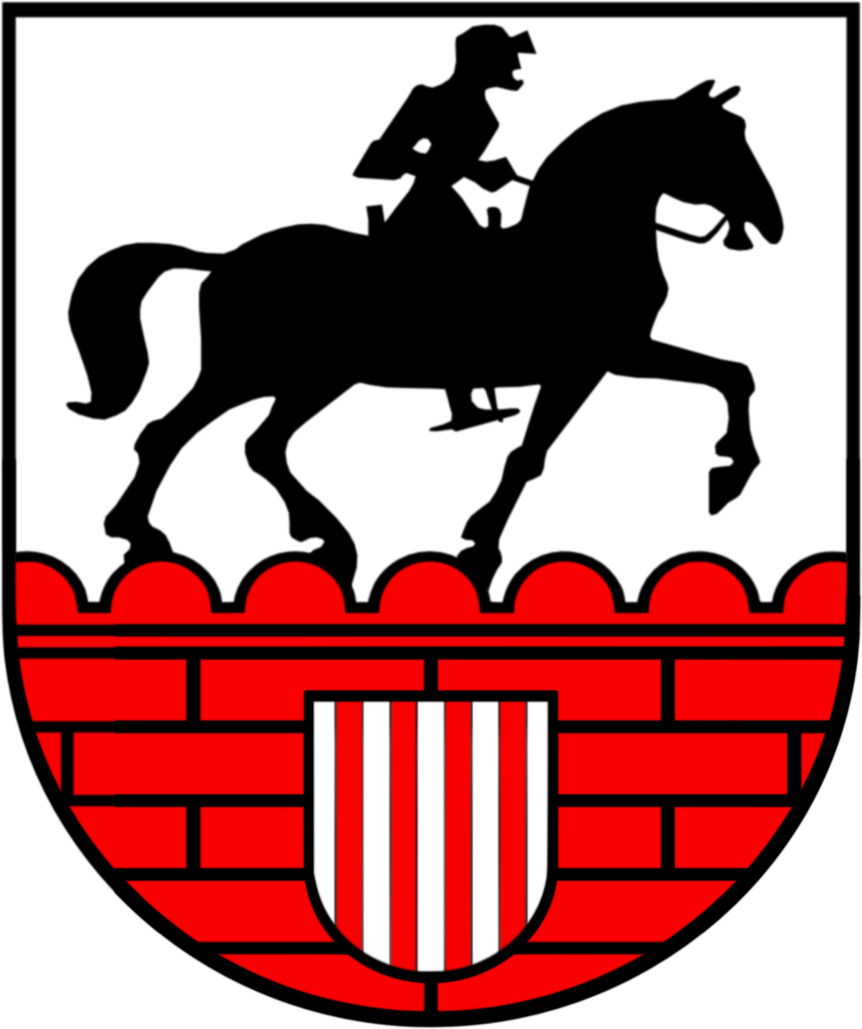 Coat of arms of Hermsdorf unterm Kynast (today: Sobieszów).